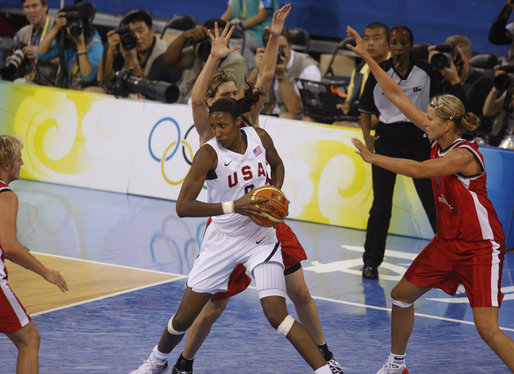 United States women's national basketball team